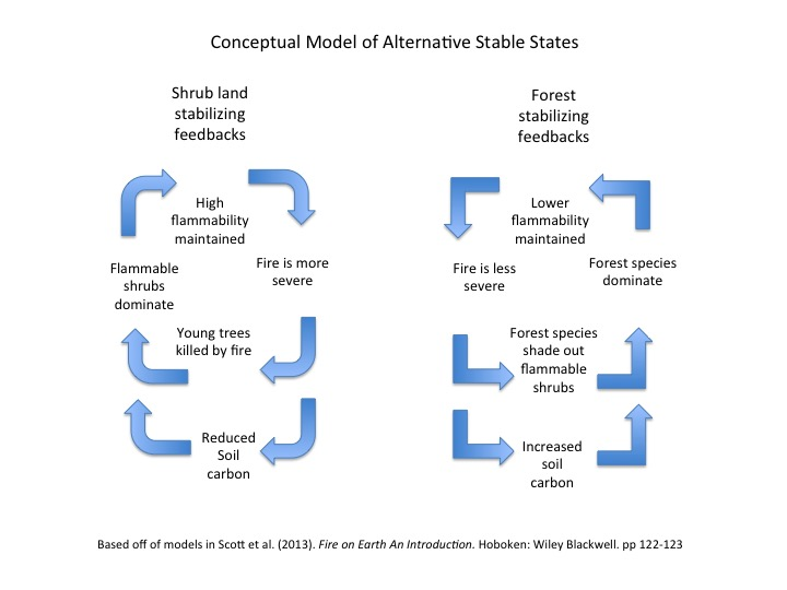 Adapted from models in Scott et al. (2013). Fire on Earth An Introduction. Hoboken: Wiley Blackwell. pp 122-123